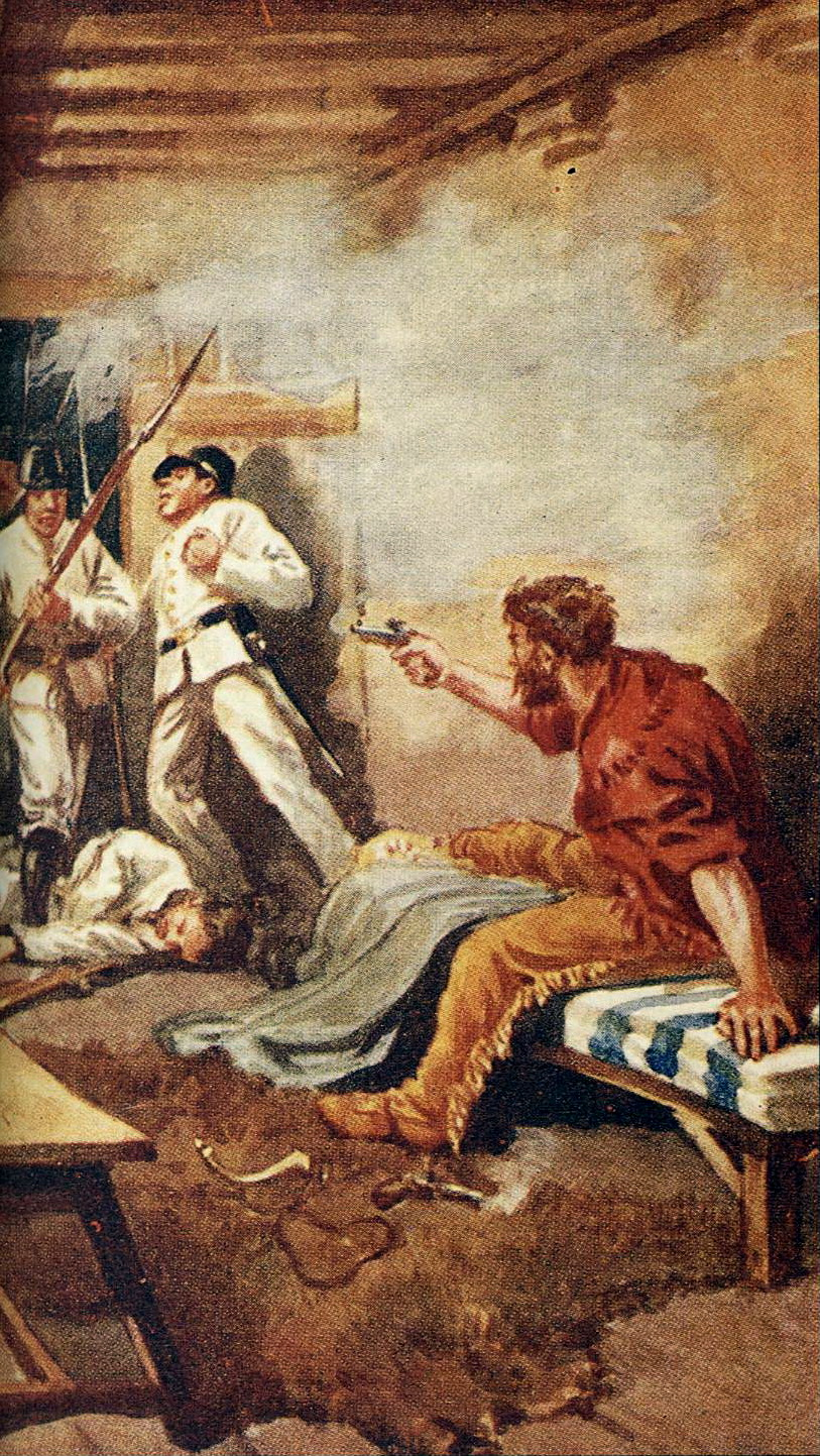 This is an illustration of the death of James Bowie at the battle of the Alamo. It is unknown how Bowie actually died during the battle; this is dramatic license. The illustration was reprinted in Frank Thompson's 2005 The Alamo.